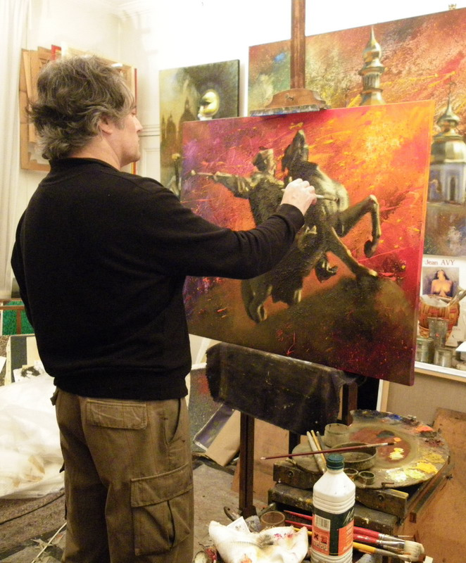 Jean Avy in his studio. Versailles. 2012